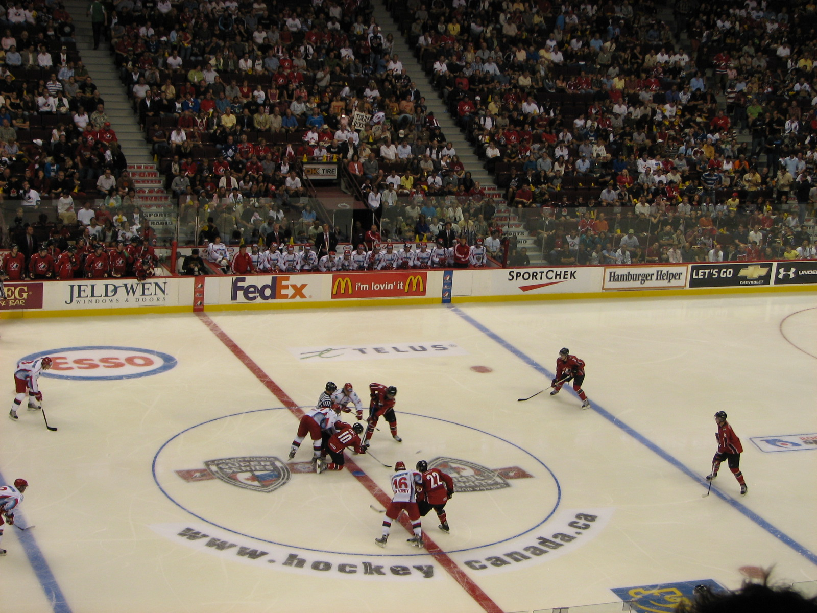 Super Series 2007, game 8 at GM Place